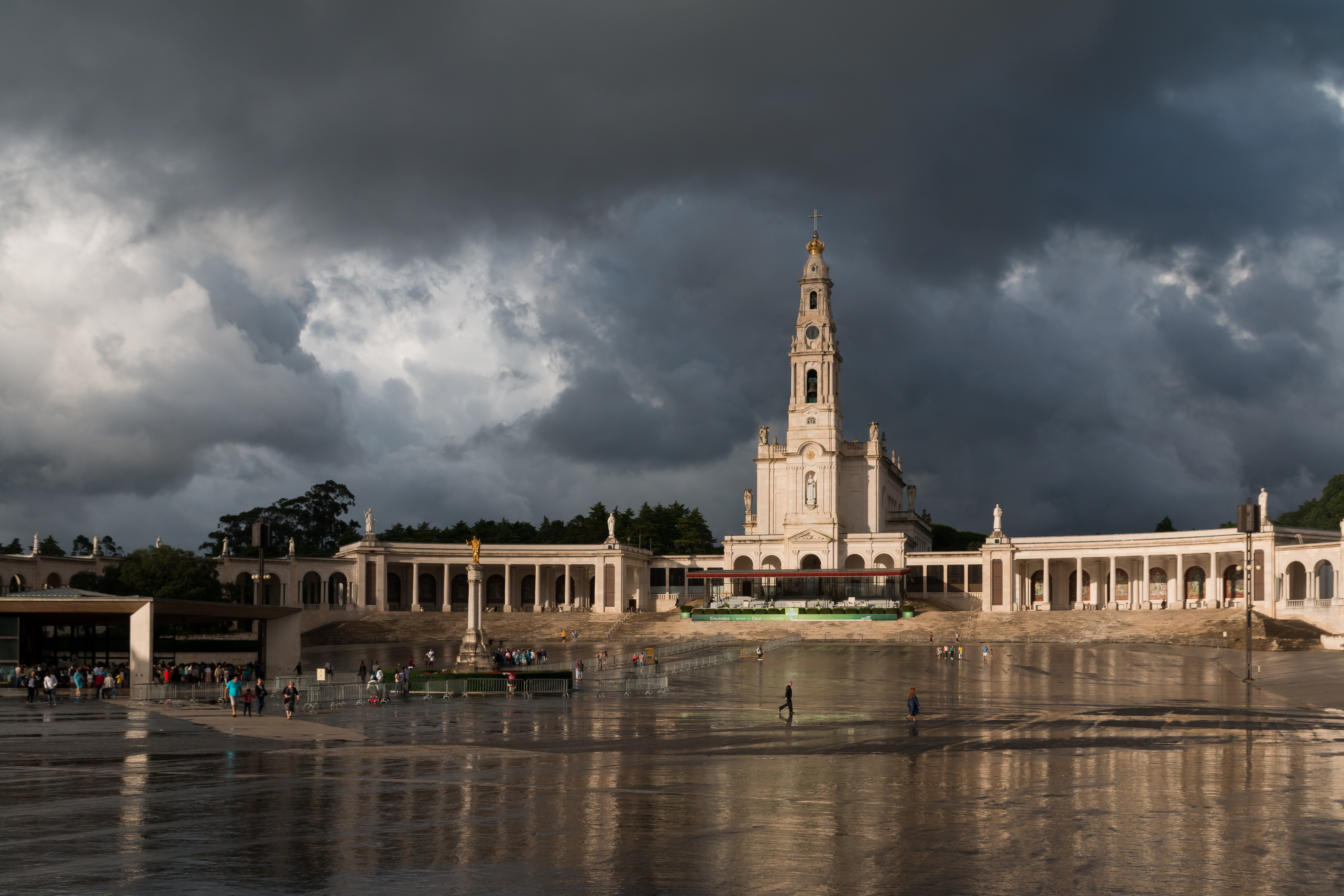 Shrine of Our Lady of the Rosary Fátima.